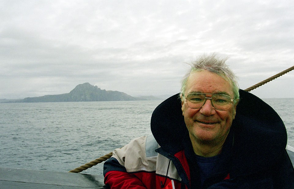 John Selwyn Gilbert with Cape Horn in the distance